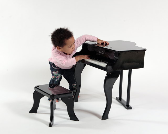 Keyskills Centre toy piano model BG01. These hand built pianos have been specifically designed with the under 14 year old in mind and are durable, educational and fun. All of the toy pianos are CE marked and have undergone stringent testing. They possess EN71 Part 1, Part 2 & Part 3 and conform to the Phthalates Directive, which ensures that they comply with the current European Toy Safety Legislation.